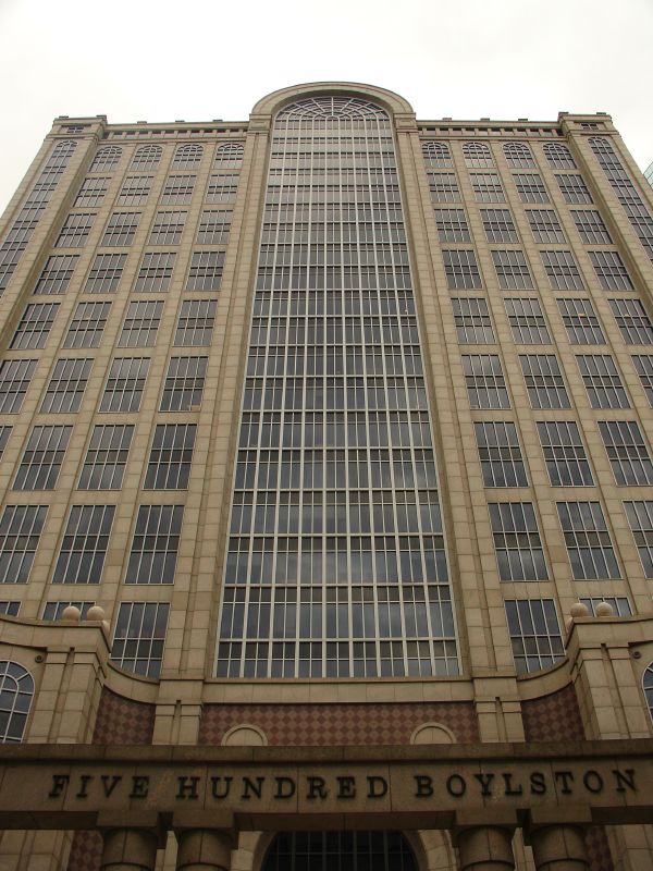 en:500 Boylston Street, Boston